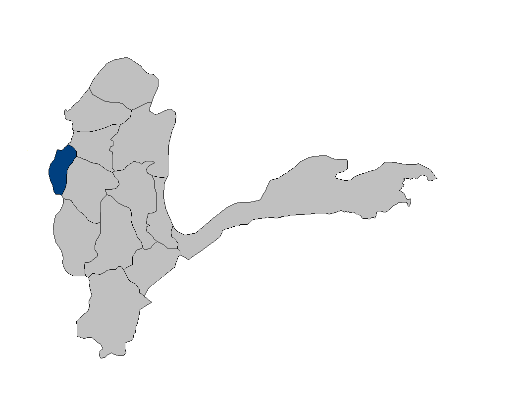 Location map for the Ragh District of Badakhshan Province, Afghanistan. Original map source: Image:Badakhshan districts.png